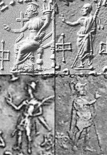 Indo-Greek mudras. Bopearachchi. Clockwise, from top left: Detail of a coin of Amyntas Detail of a coin of Peukolaos Detail of a coin of Menander II Detail of a coin of King Nicias